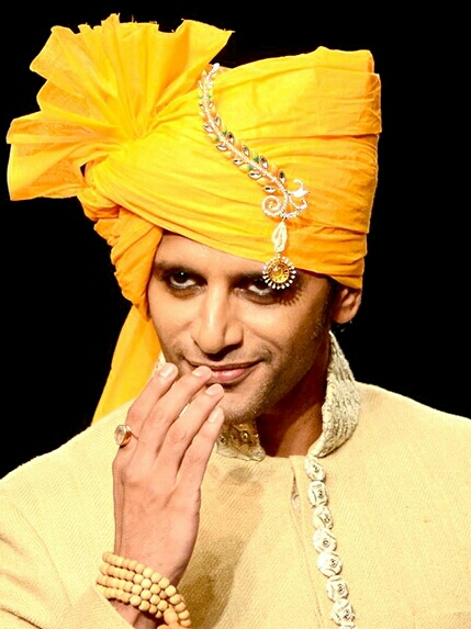 Karanvir Bohra walks the ramp at at IIFW